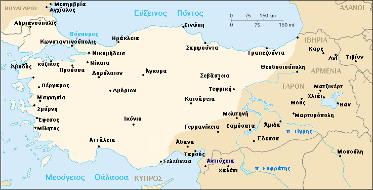 Asia Minor in 10th century